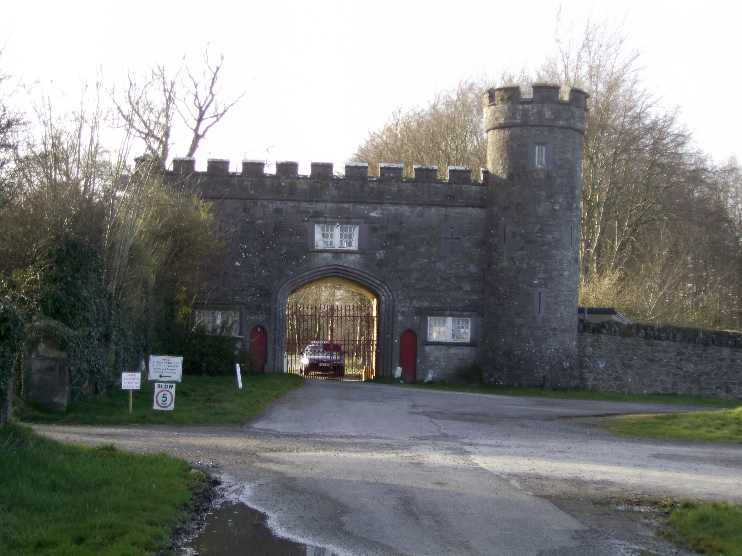 Entrance-Tully-Nally-Castle_02.jpg